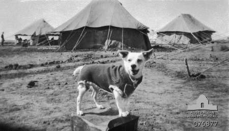 Black & white photo of Horrie the Wog Dog.